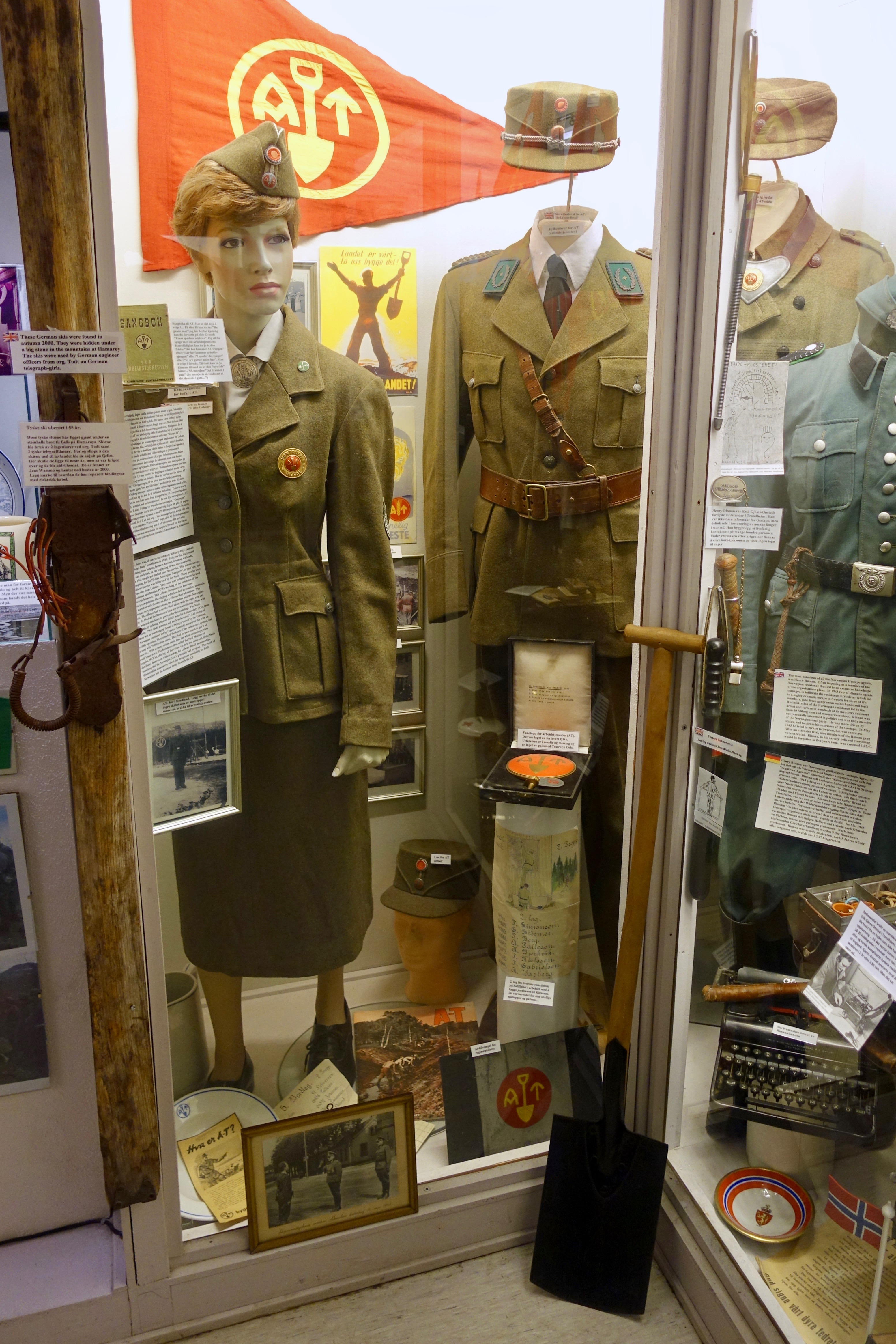 World War 2 in Norway: Uniforms, equipment, items, etc. of the Norwegian Labour Service Arbeidestjenesten (AT) organized by Nasjonal Samling (NS), the Nazi party of Norway. Uniform for female leader (kvinnebefal, kontrollbefal), male district leader/officer (fylkesleder i AT), and soldier (menig AT-soldat); AT pennants; songbook; propaganda posters; AT flag pole top; shovel; photos; cap; etc. Also ski used by German military forces, and torture instruments used by Gestapo/Rinnan-banden in Trondheim, Norway. From the exhibitions at Lofoten War Memorial Museum (Lofoten Krigsminnemuseum) in Svolvær, Norway Photo taken on 8 May 2019.